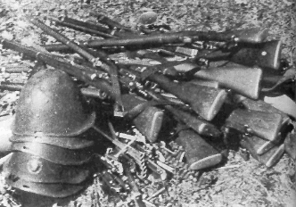 Weapons and helmets of the disarmed Danish soldiers in Bjergskov, Denmark, April 9, 1940